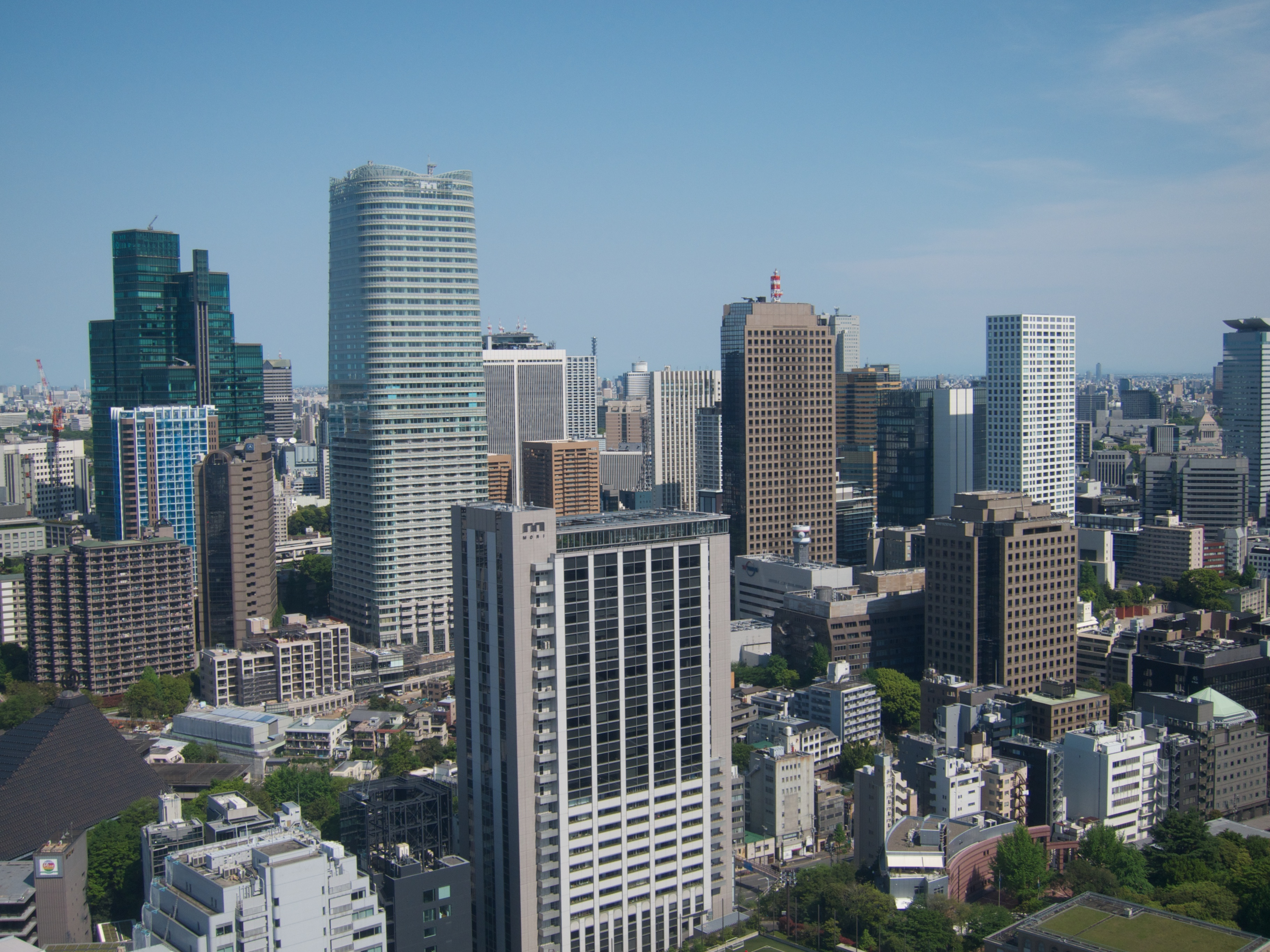 From Tokyo Tower